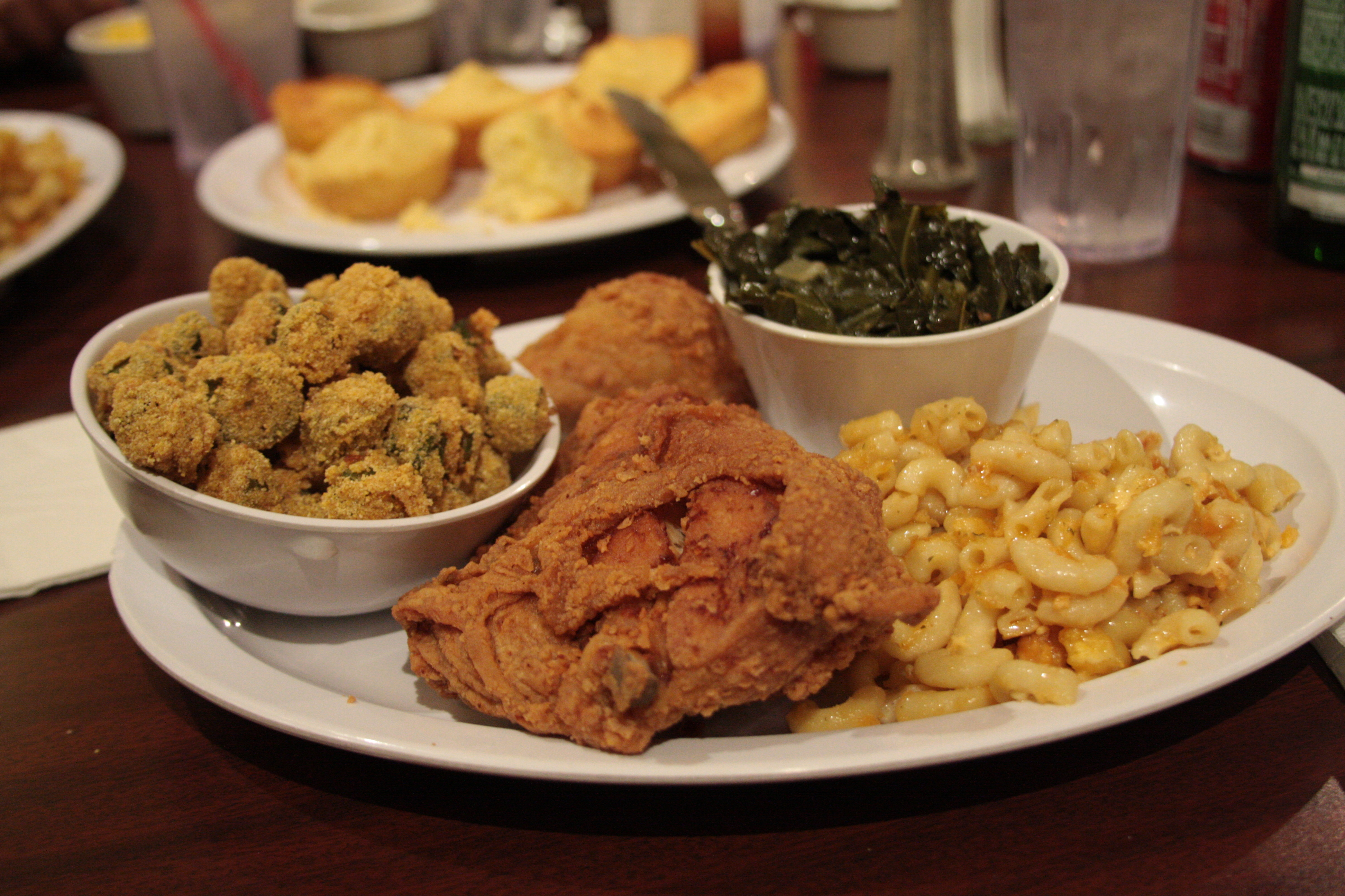 Soul food at Powell's Place